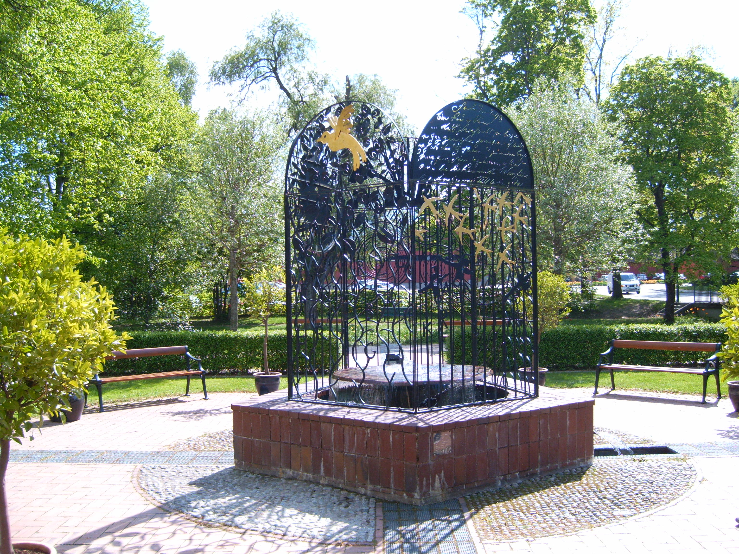 Place of Ivan Aguéli in Sala, Västmanland, Sweden